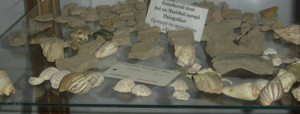 Findings from neolithic age, found at Paliampela, Pieria. The photo is from the Ethnological Museum of Kolindros.